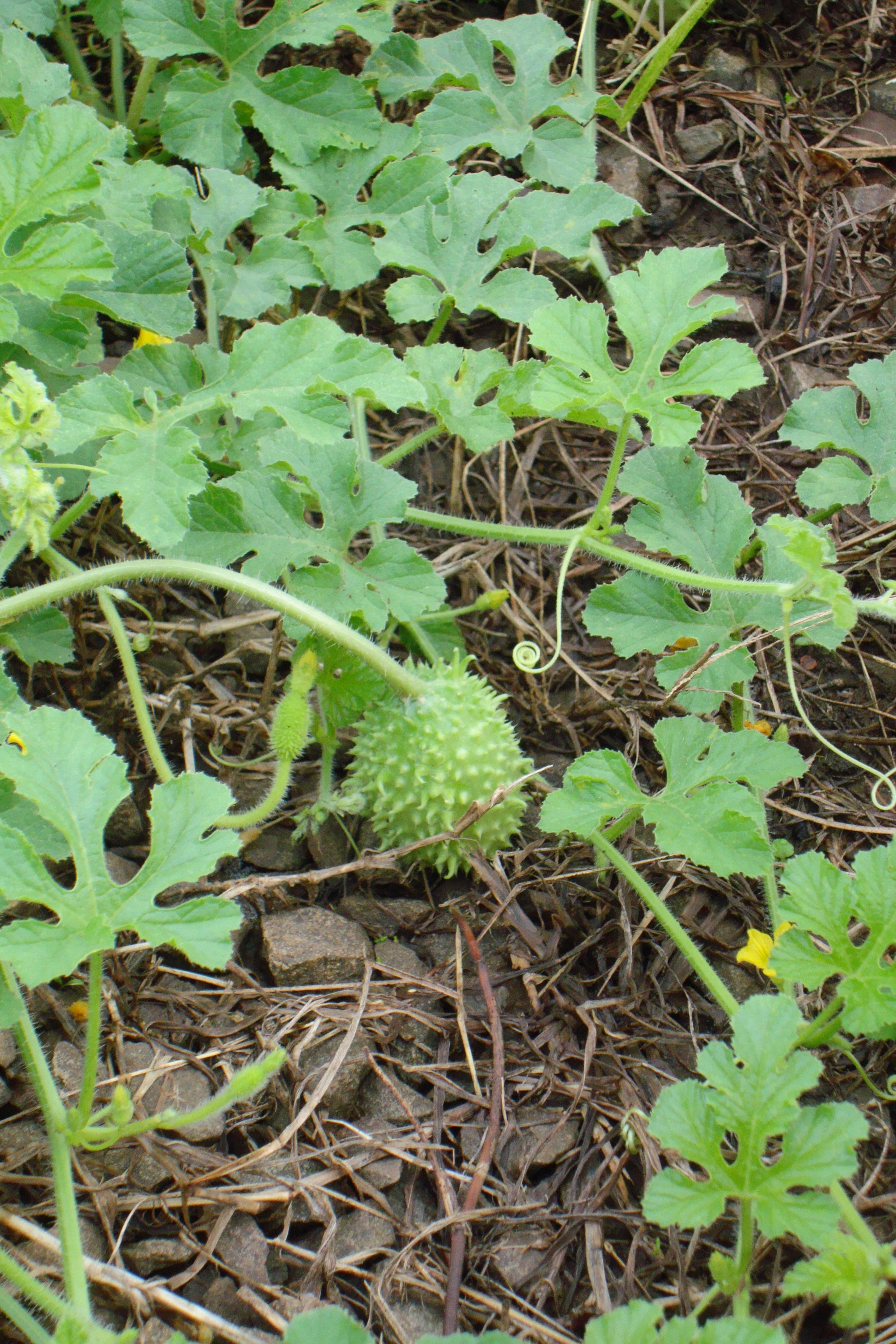 Cucumis anguria